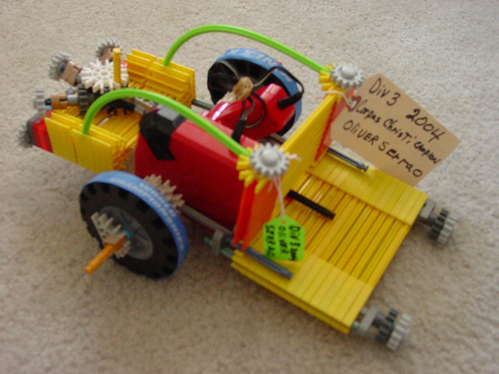 My own photograph, taken August 2004. Source